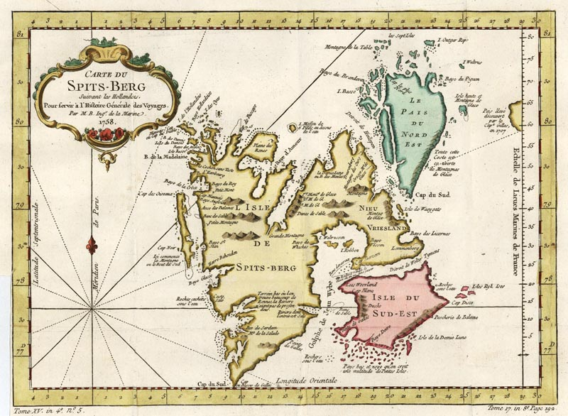 map of Spitsbergen/Svalbard, Norwegian Territory in the Arctic Ocean